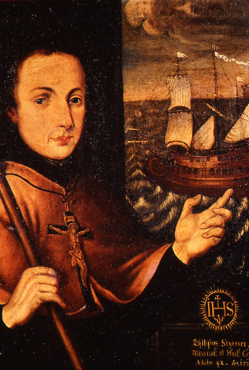 Philipp Segesser (1 September 1689 - 28 September 1762) was a German-speaking Swiss Jesuit missionary who spent much of his career in Sonora, Mexico. This painting shows him in 1729.